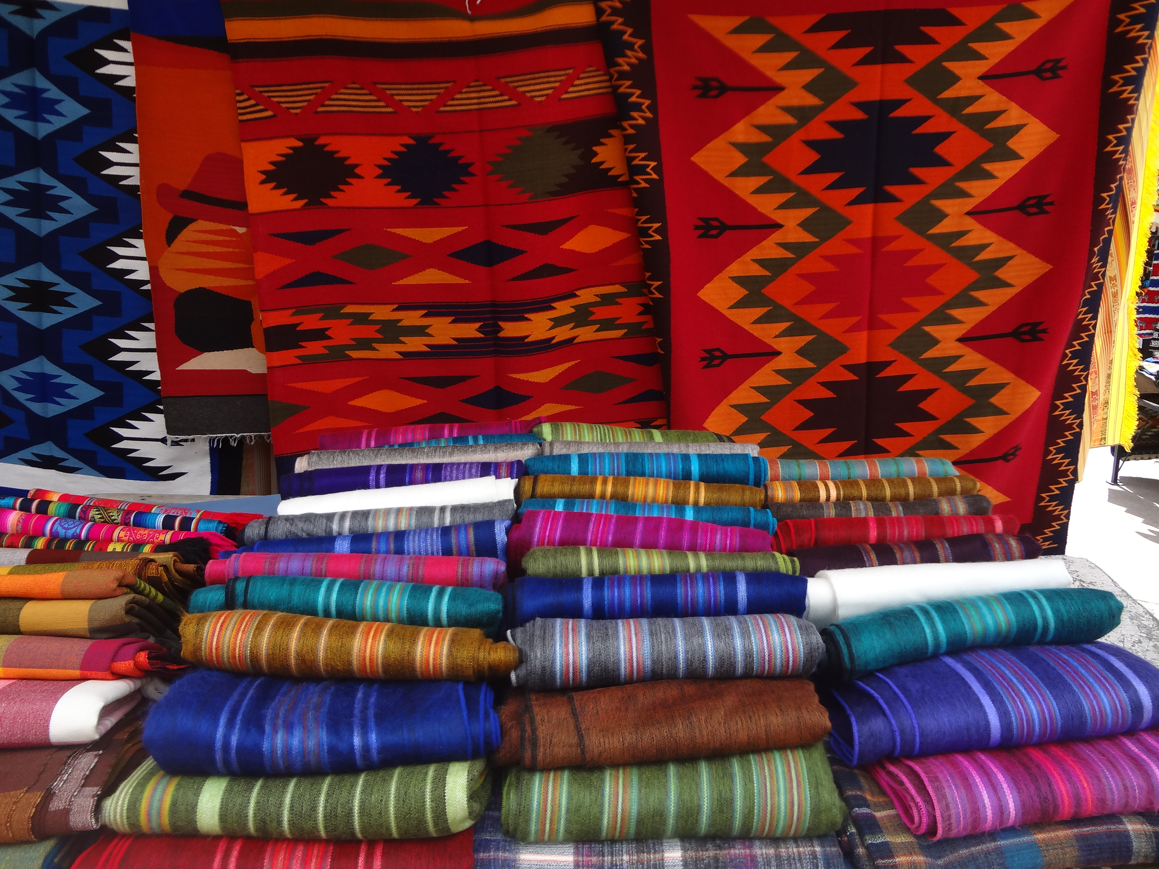 Otavalo Market - Andes Mountains